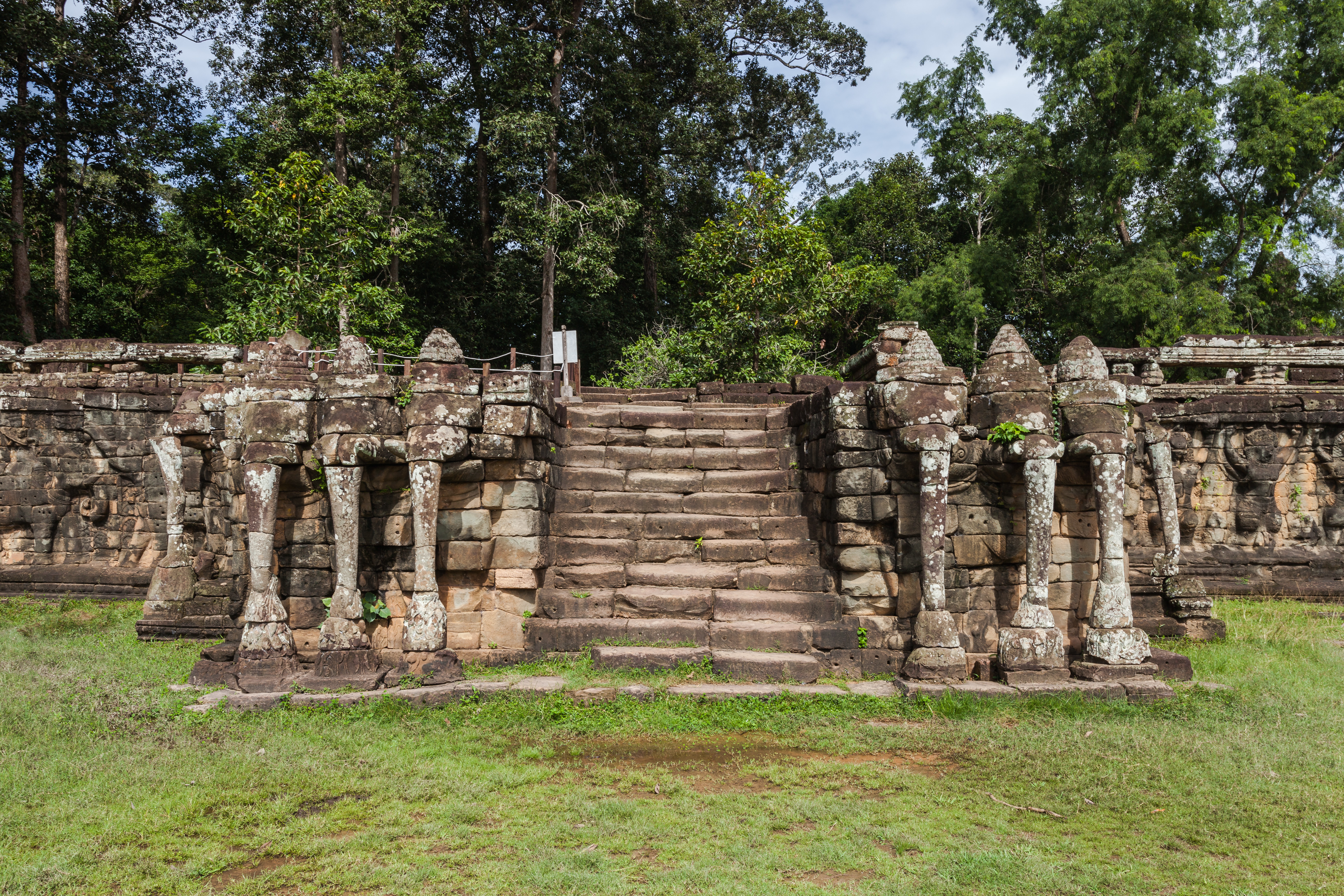 Terrace of the Elephants, Angkor Thom, Cambodia